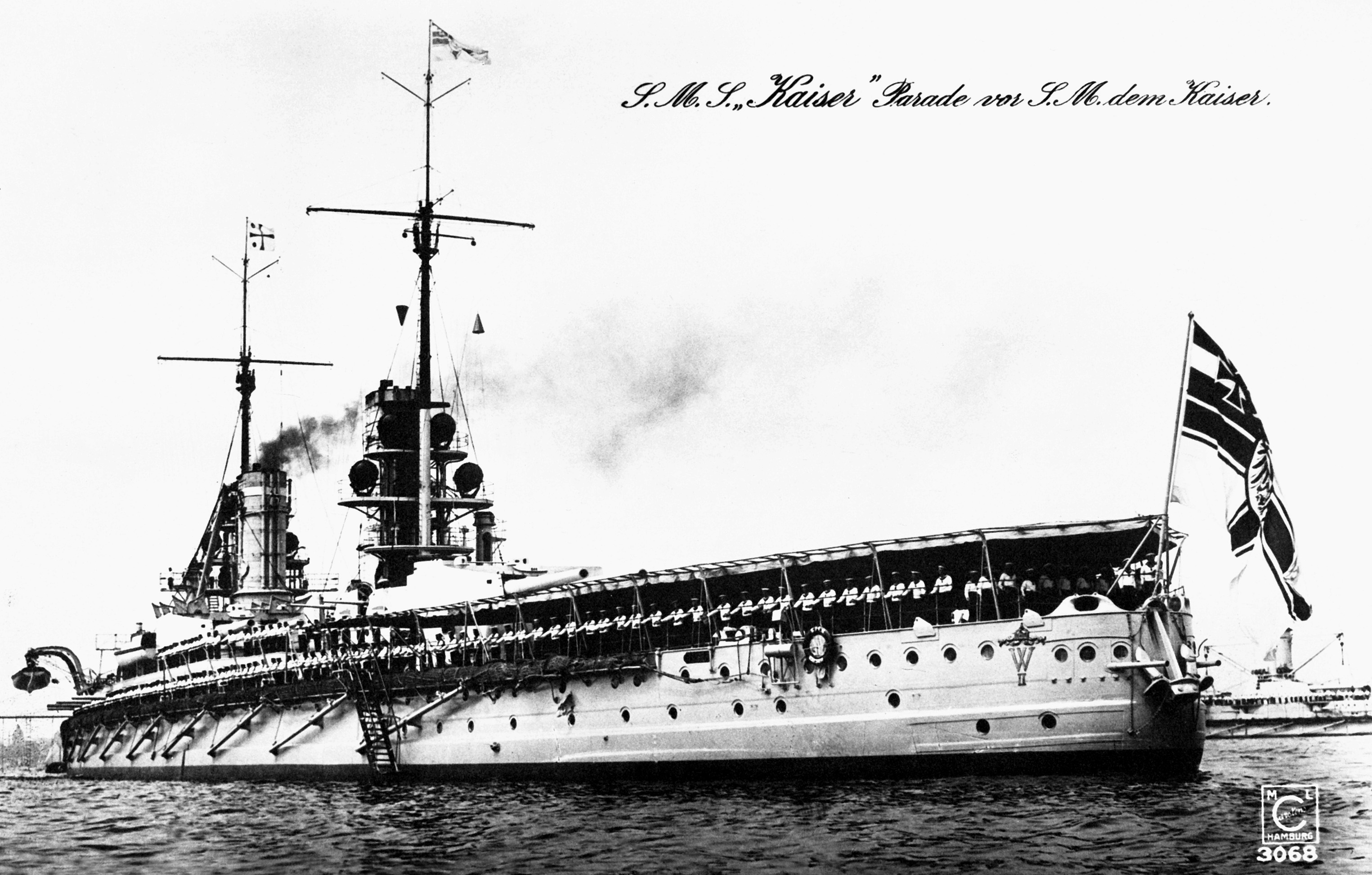 The crew ot the German battleship SMS Kaiser at a parade for Emperor Wilhelm II on 1 january 1911.